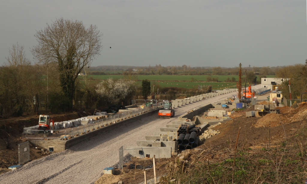 Rebuilding of Islip railway station, Oxfordshire: view from the south